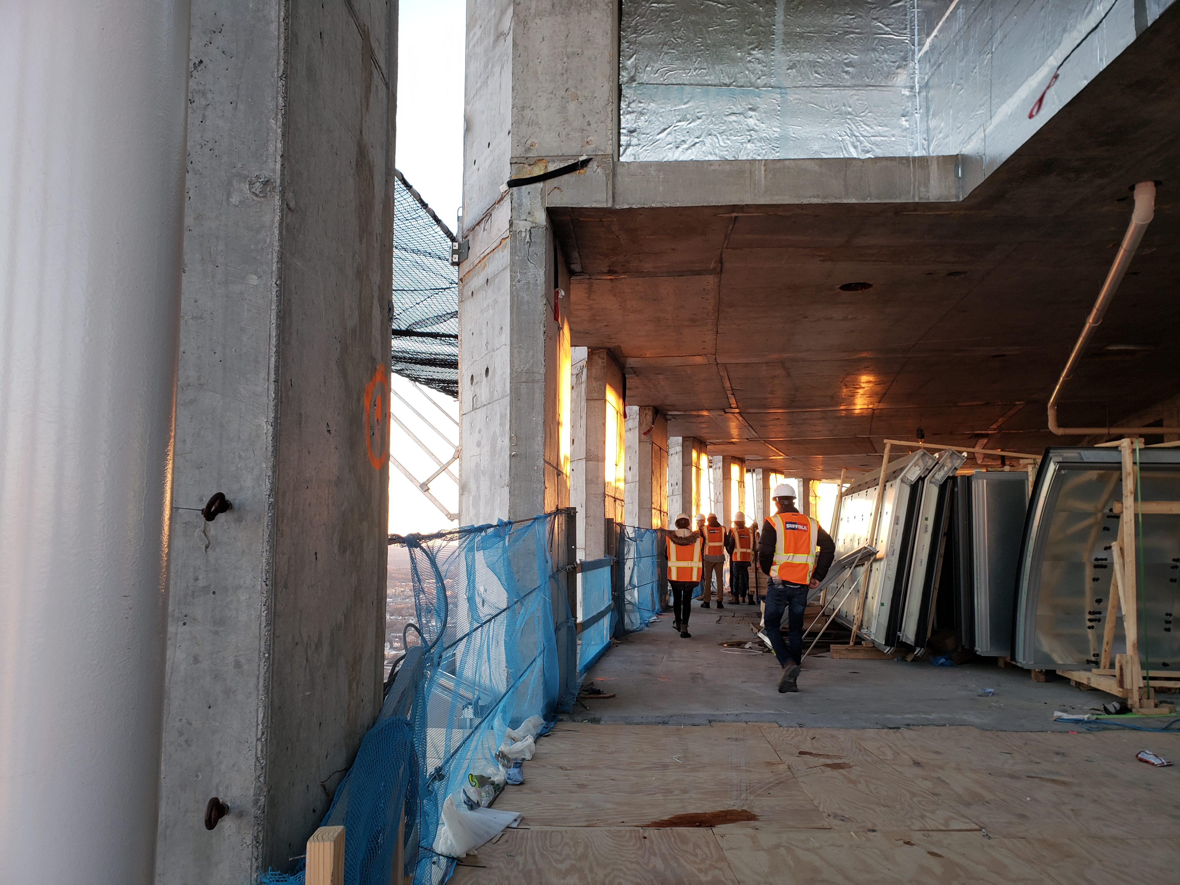 Taken during a site walk of the One Dalton/Four Seasons Hotel & Private Residences, One Dalton Street construction site on December 4th, 2018.